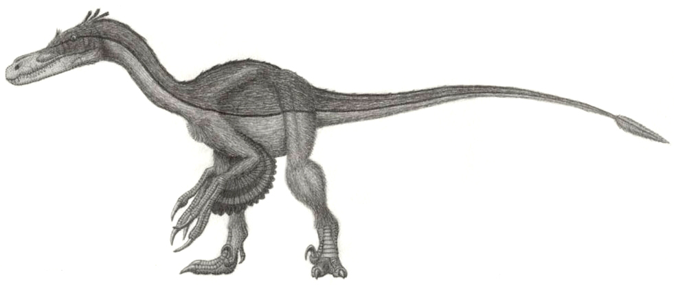 Sketch of Velociraptor mongoliensis, a dromaeosaurid theropod from the late Cretaceous (Campanian) of Asia (Mongolia & China). Note that this dinosaur is not that big as shown in the movie "Jurassic Park" but only about two metres long and stood approximately half a metre tall at the hip.